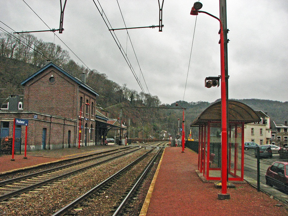 Het station van Poulseur.